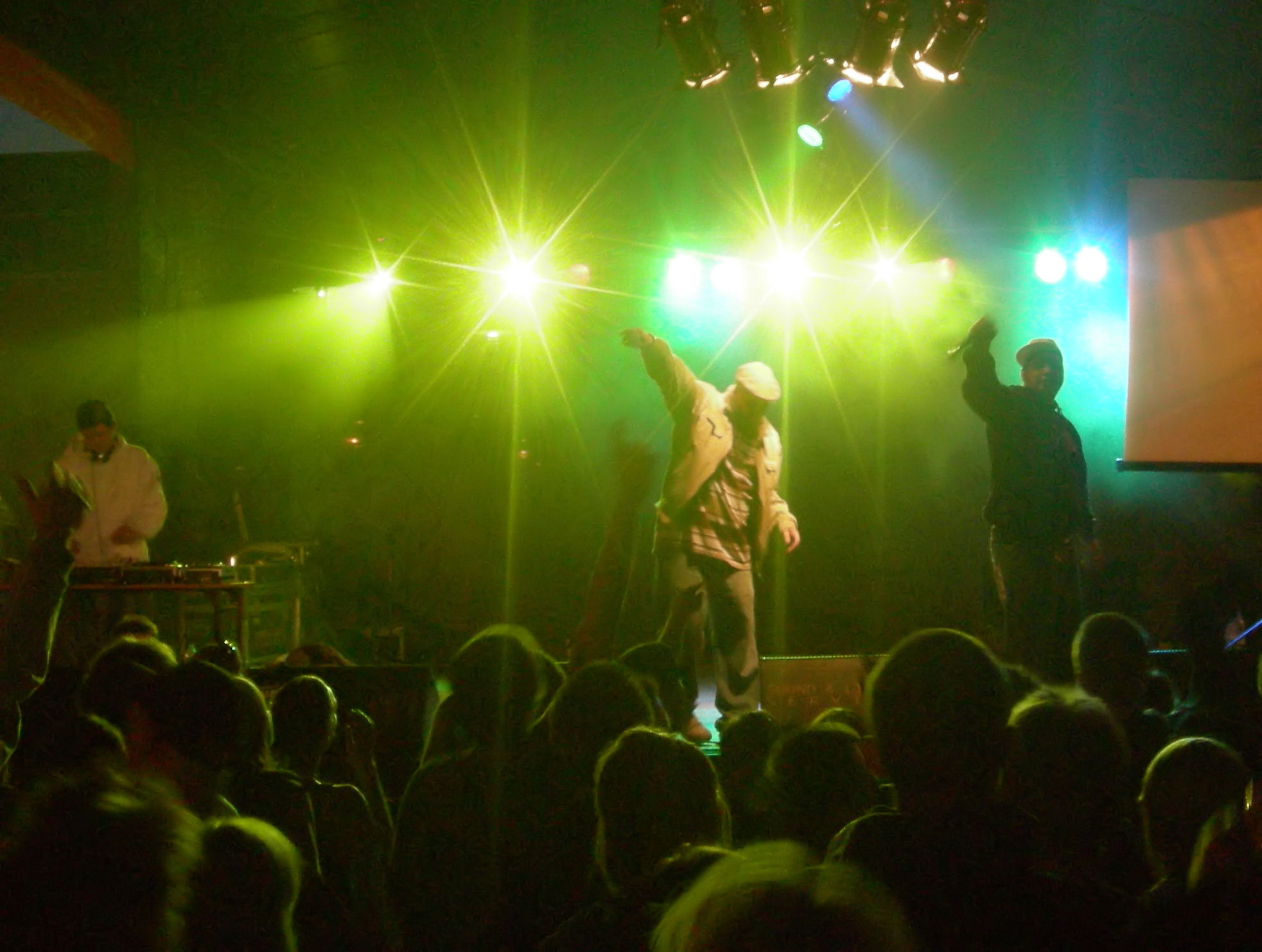 Jamal, Polish music group, concert in Kampus Morasko